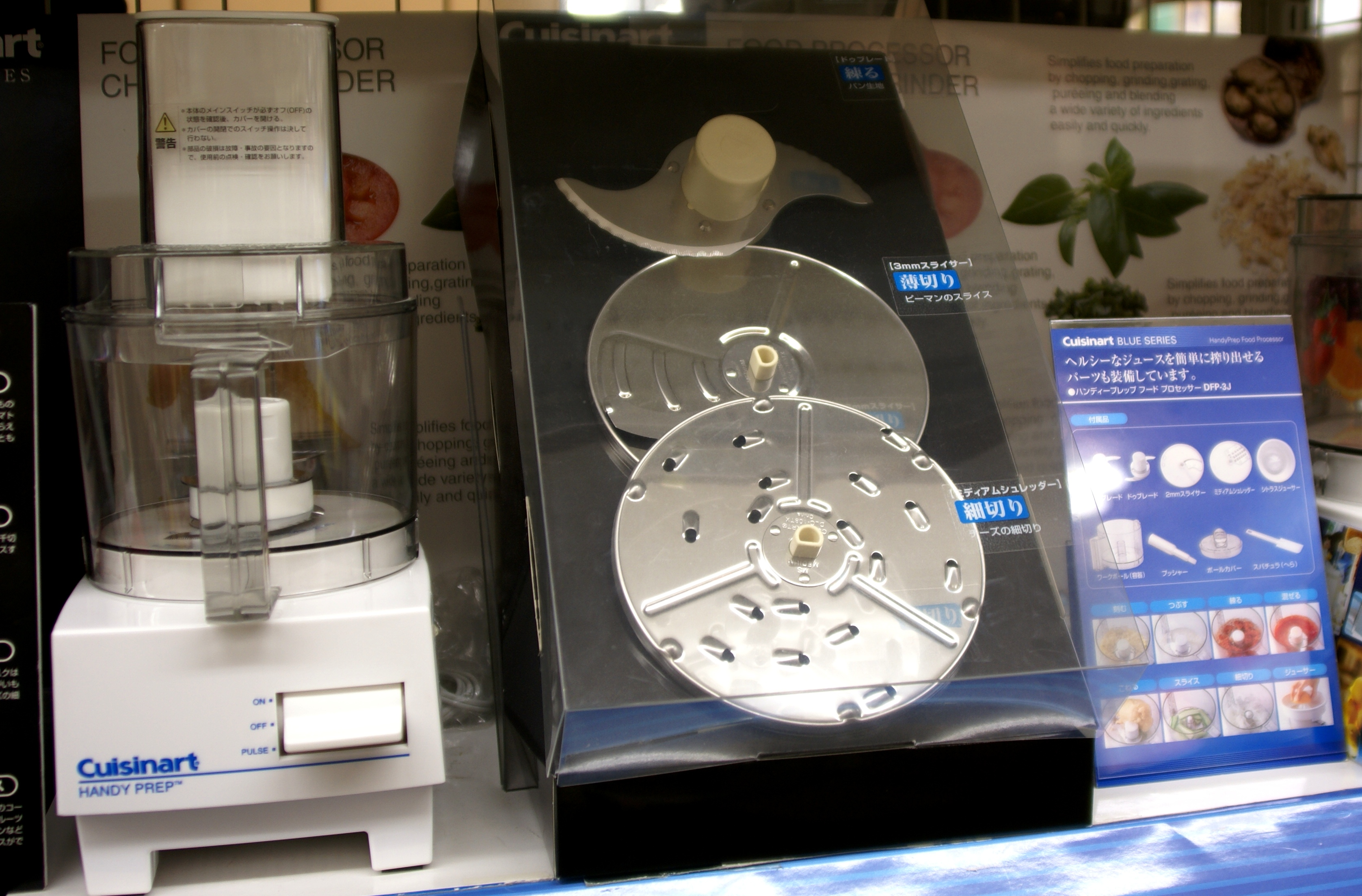 Blades of Cuisinart